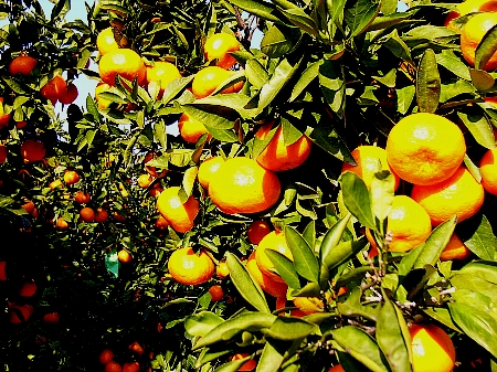 MIKAN field